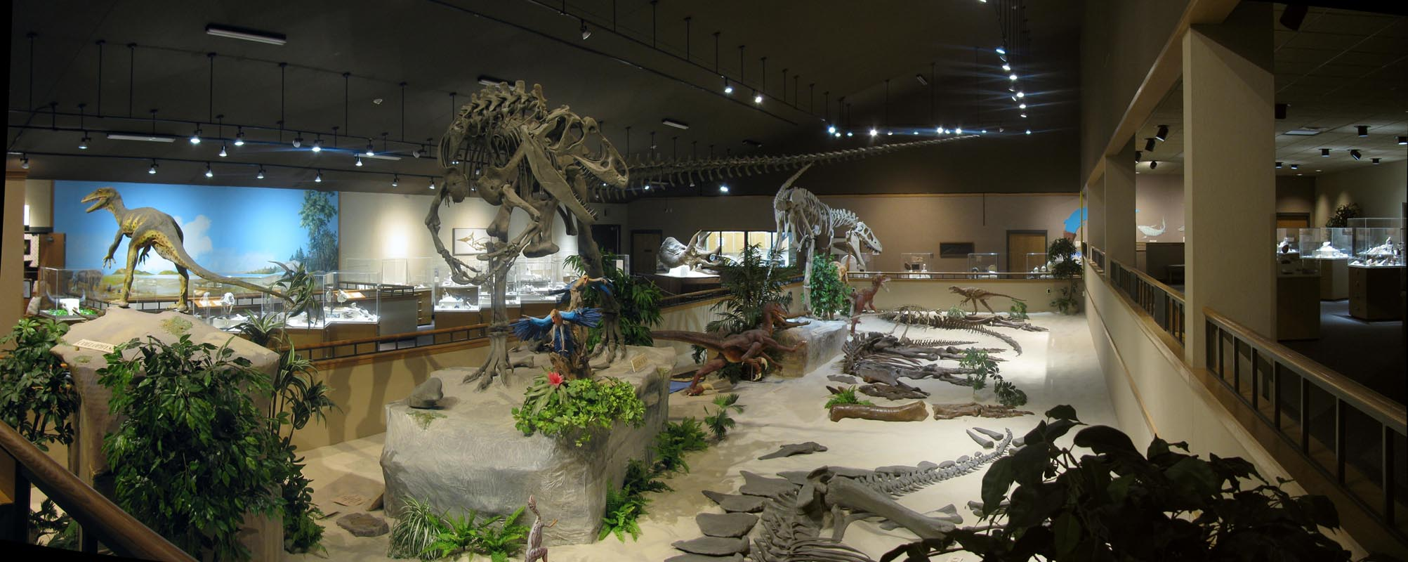 The main exhibit hall of the Badlands Dinosaur Museum, Dickinson ND, in early 2018